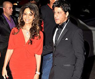 Shahrukh Khan with his wife Gauri Khan at Karan Johar's 40th birthday bash at Taj Lands End